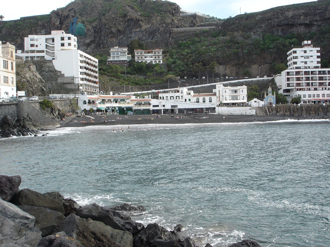 Beach Playa de San Marcos, Tenerife, Canary Islands, Spain, 2009